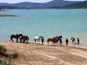 The Lac de Montbel is a reservoir 5 minutes from Chalabre. It is located at the border between the Ariège and Aude départements of southwestern France.